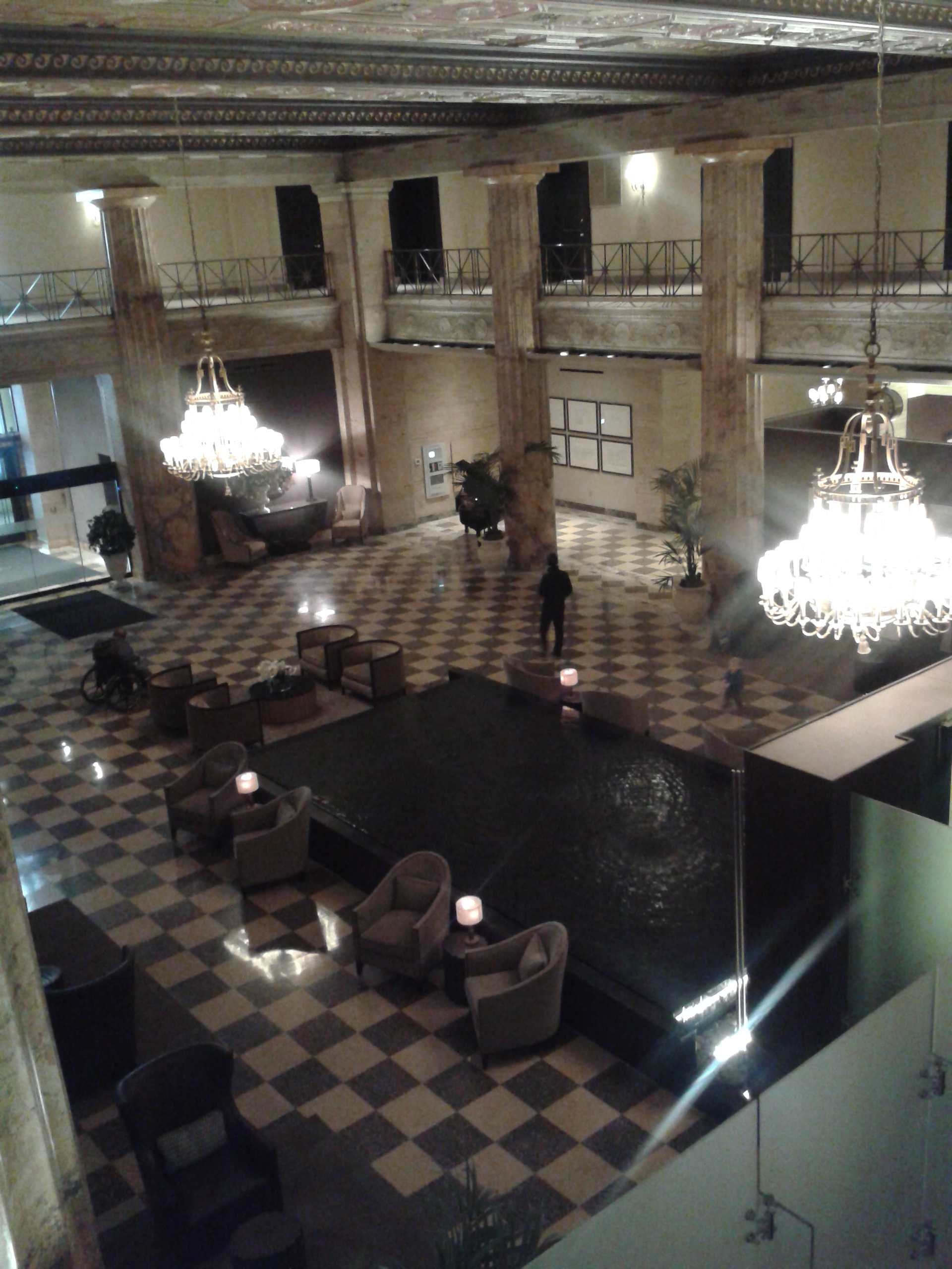 View overlooking the main lobby of the apartment building (formerly Franklin Hotel) 834 Chestnut Street, Philadelphia